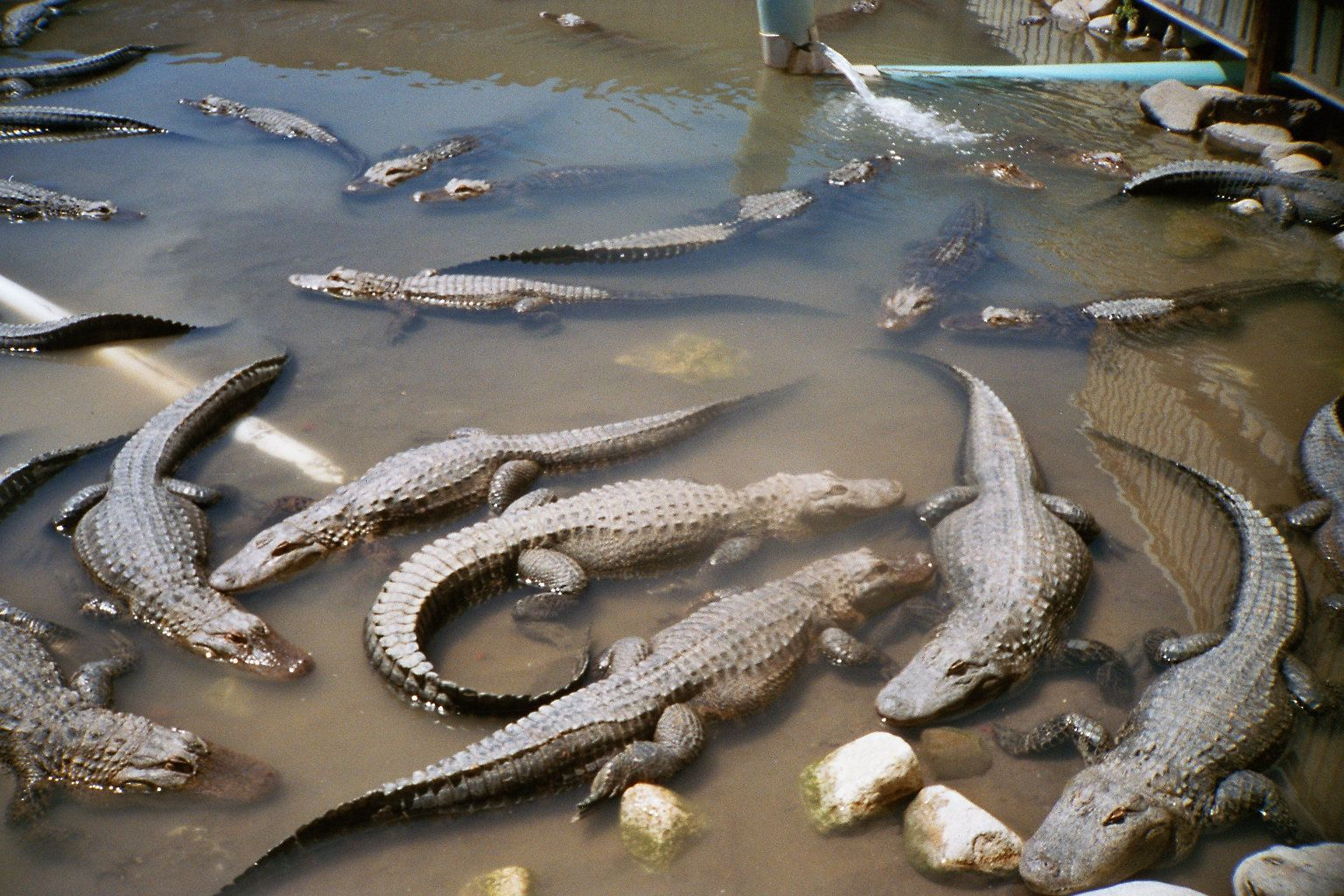 Colorado Gator Farm and Reptile Park near Mosca, Colorado